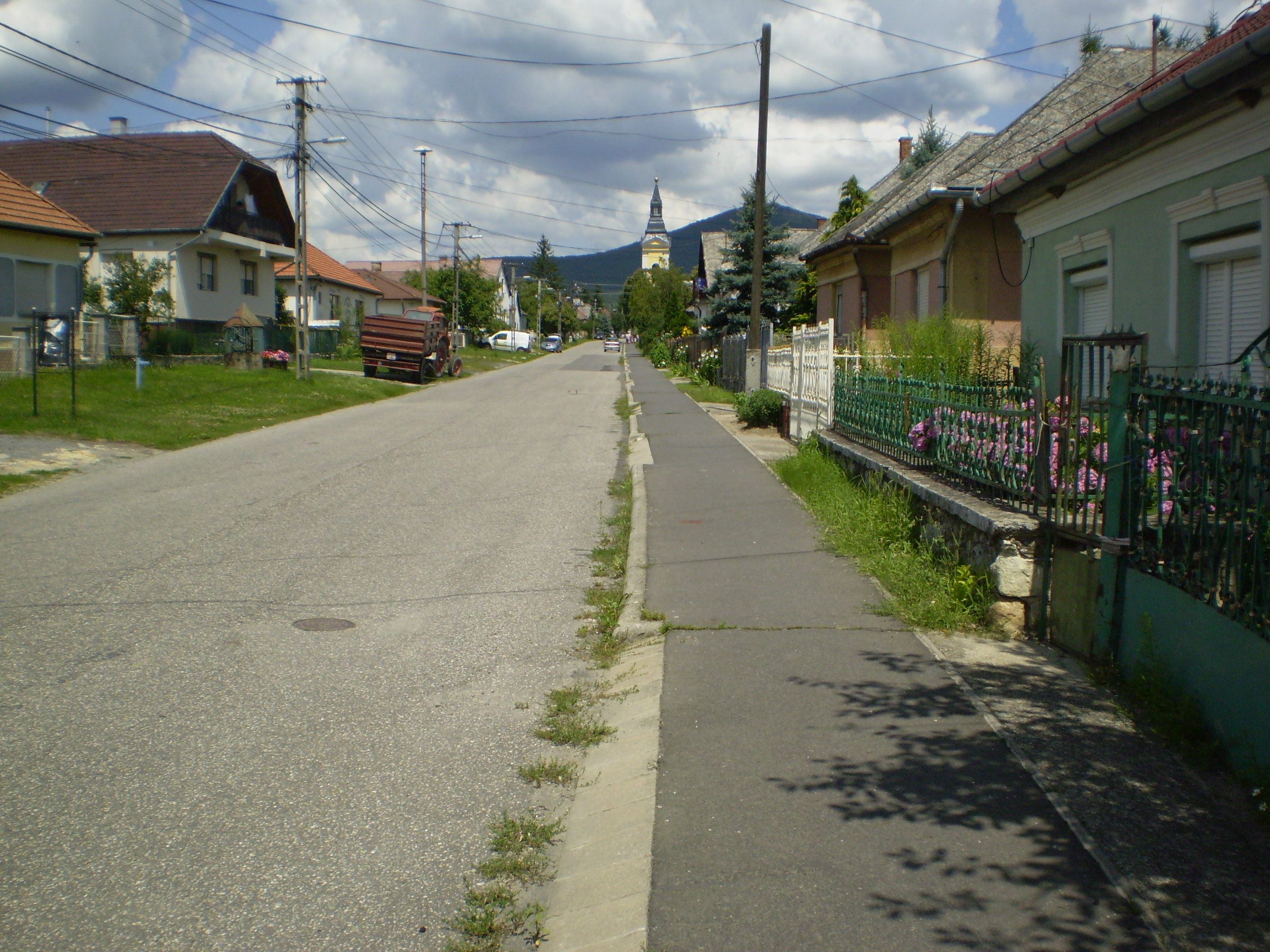 Karolyfalva